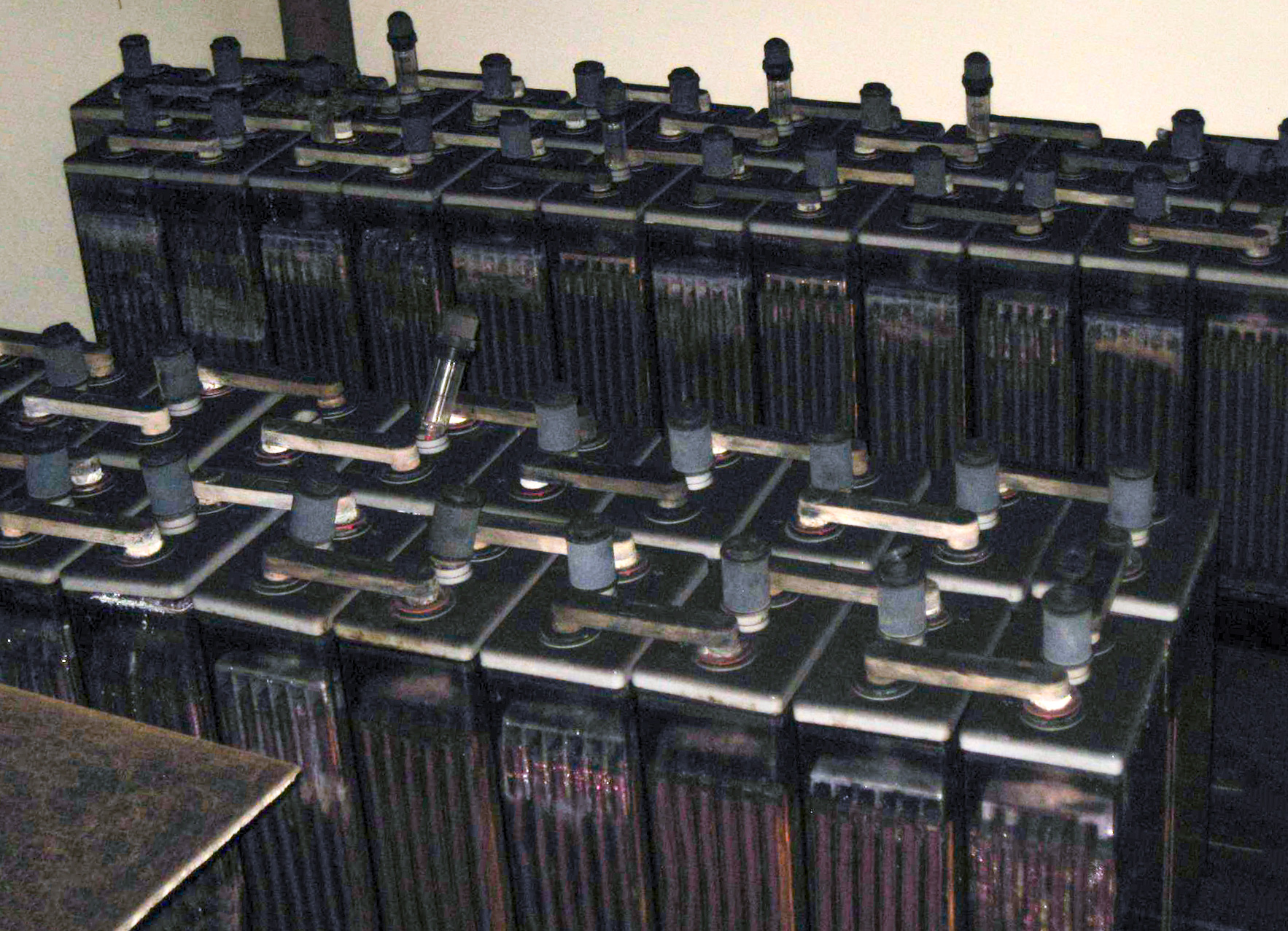 Lead-acid batteries